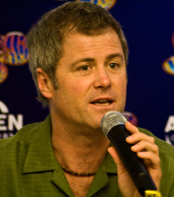 Press conference of Yes rock band: Benoît David